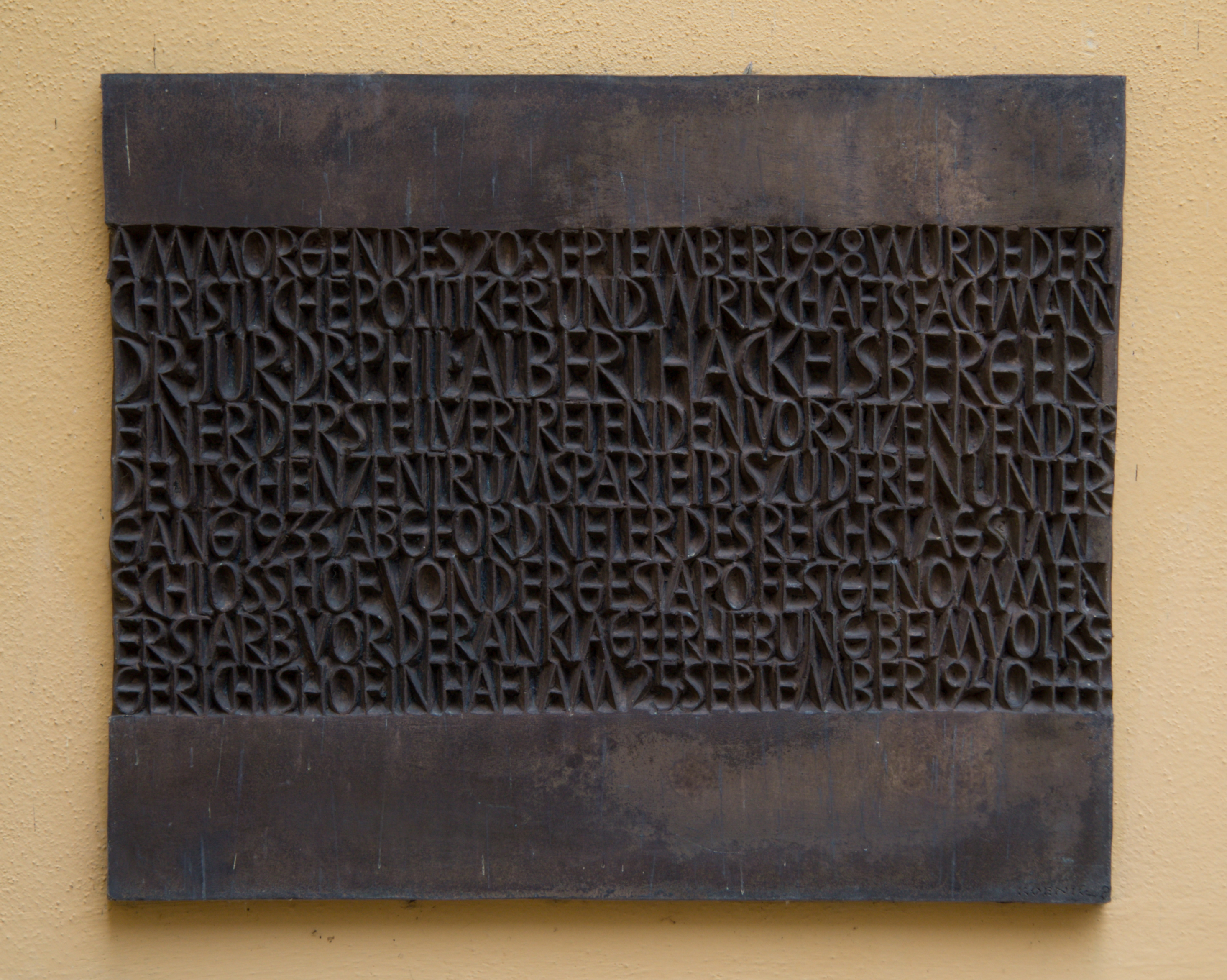 The castle of Tutzing. A plaque as memorial belonging to the castle.